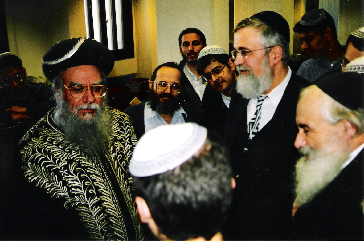 Rabbi Eliyahu Bakshi-Doron at Yeshiva Hakotel in Jerusalem